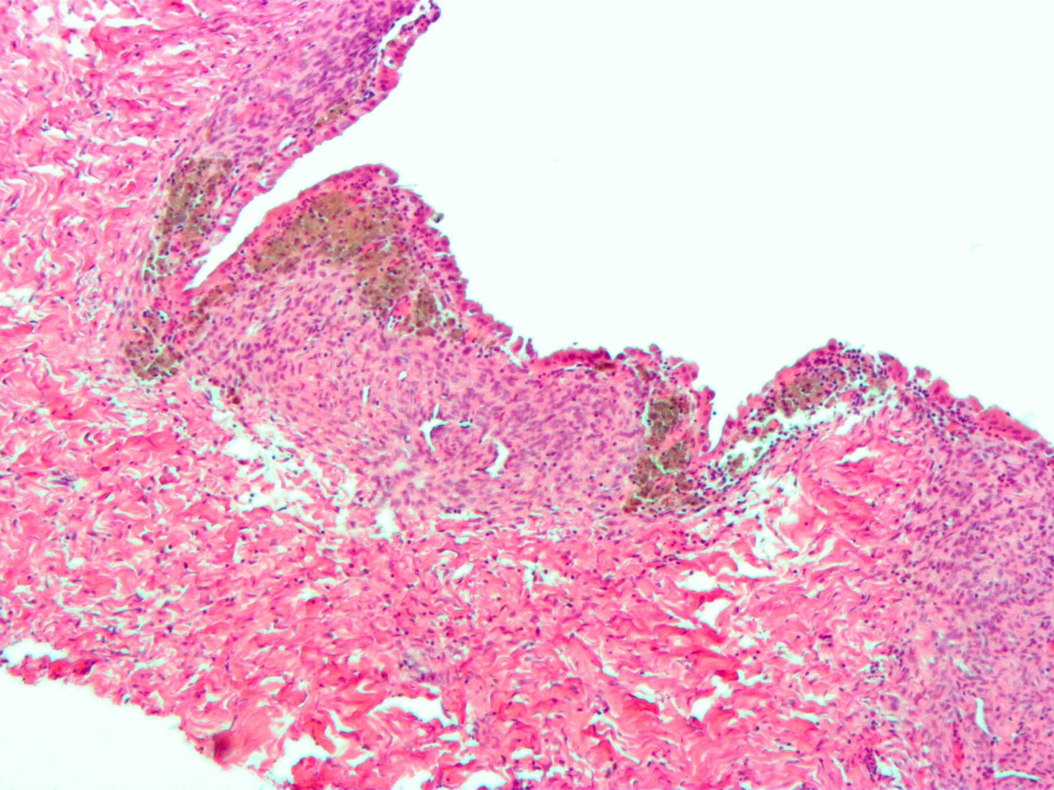 Micrograph of an endometrioma. H&E stain. To histologically diagnose endometriosis one requires two of the three following criteria: endometrial glands - hyperchromatic (dark blue) epithelium. endometrial stroma - hyperchromatic spindle-shaped cells below the epithelium. hemosiderin-laden macrophages - brown pigmented area. All three of the above criteria are seen in the micrograph. Related images Endometrioma high magnification.